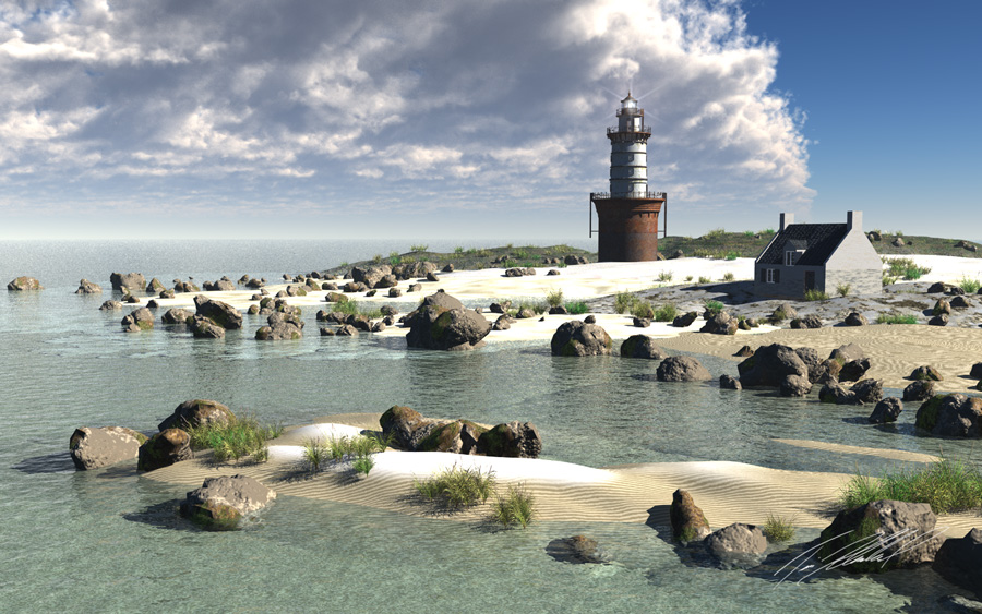 Vue Landscape created by Timothy Klanderud